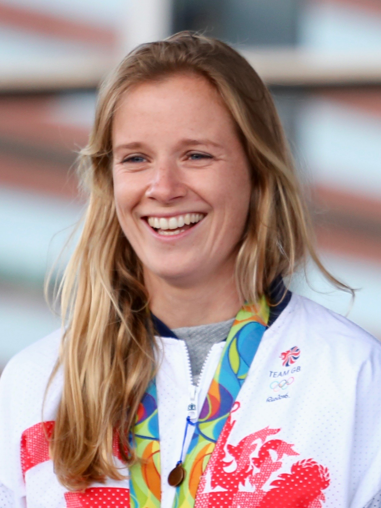 Hannah Mills at a homecoming event for Welsh Olympic competitors.